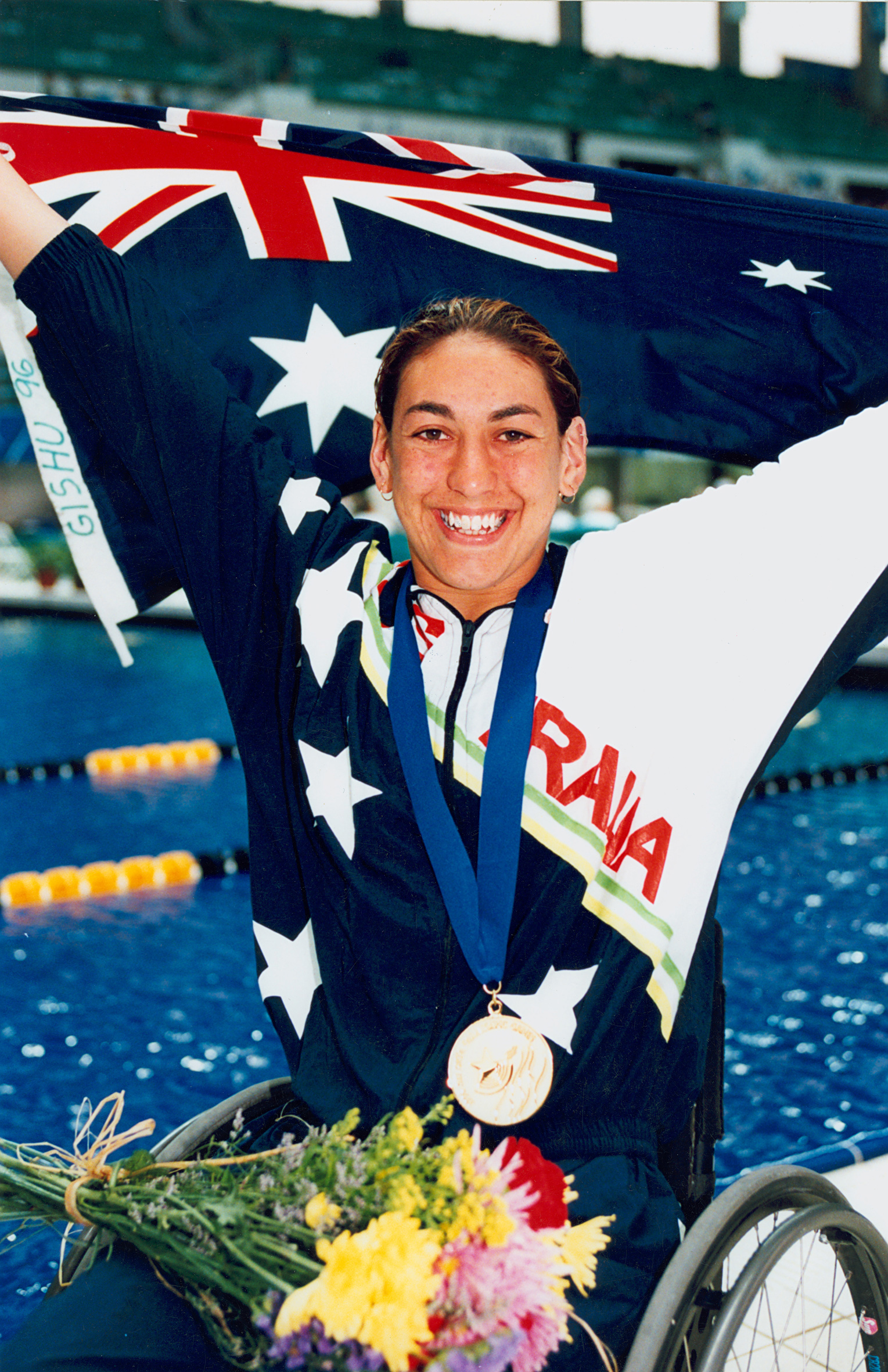 Australian S8 swimmer Priya Cooper on the pool deck with the Australian flag, gold medal and flowers after a medal presentation ceremony at the 1996 Summer Paralympics